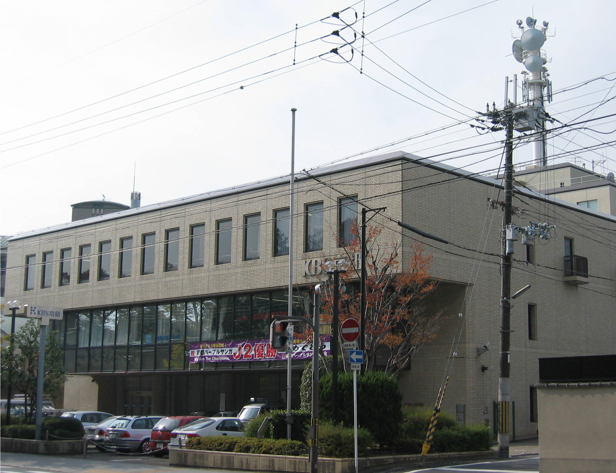 Photograph of the head office of Kyoto Broadcasting System in Kamigyo-ku, Kyoto, Kyoto Prefecture, Japan.